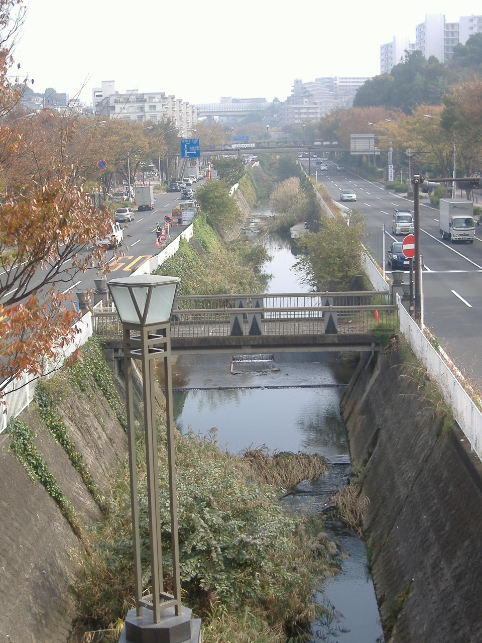 Hiradonagaya river(Yokohama, Japan)